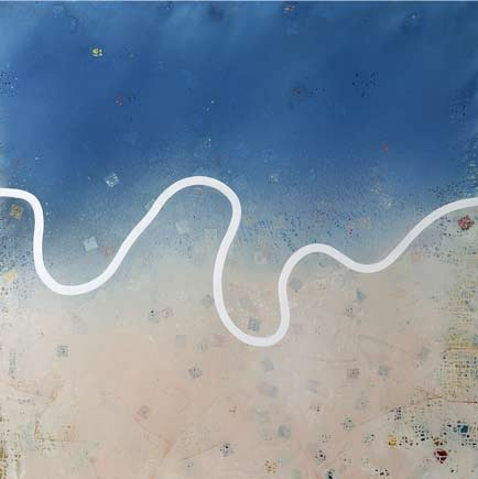 Fold